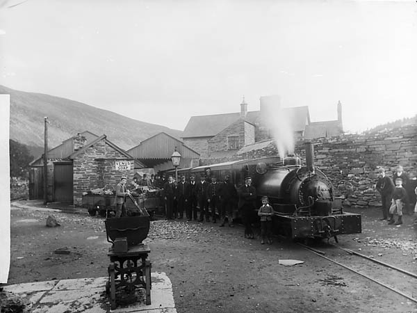 1 negative : glass, dry plate, b&w ; 16.5 x 21.5 cm.